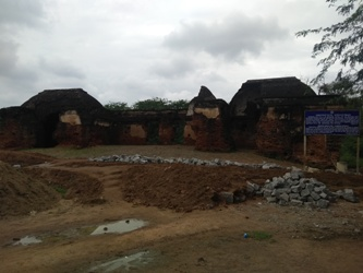 Marudhupandiyar Fort, Aranmanai Siruvayal, Sivaganga district, Tamil Nadu, India